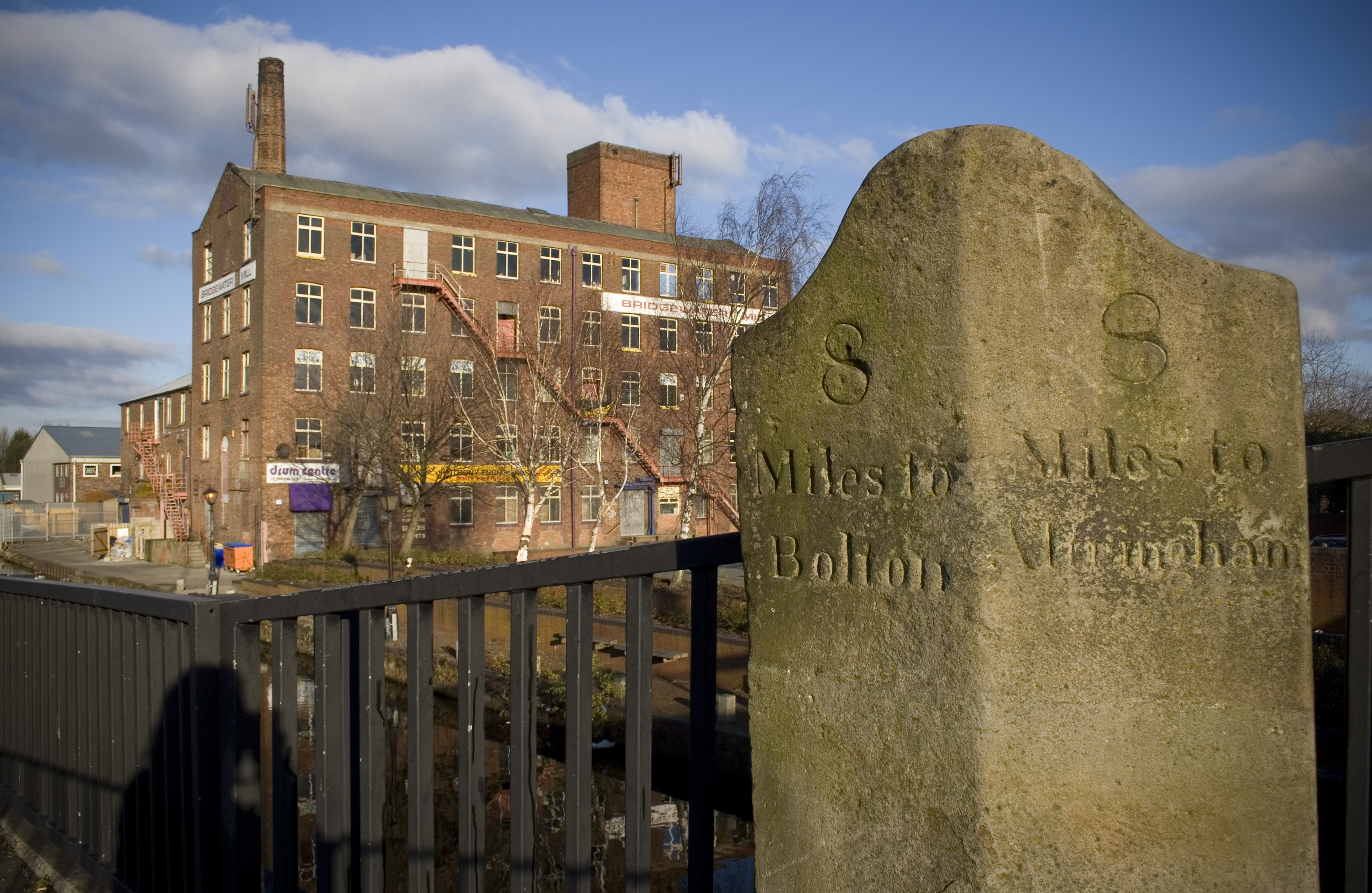 A milestone along the A57 Liverpool Road, through Eccles. This is at the junction with Worsley Road, and would appear to belong to the Barton Bridge and Moses Gate trust. Note the old spelling of 'Altringham' - latterly, 'Altrincham'.